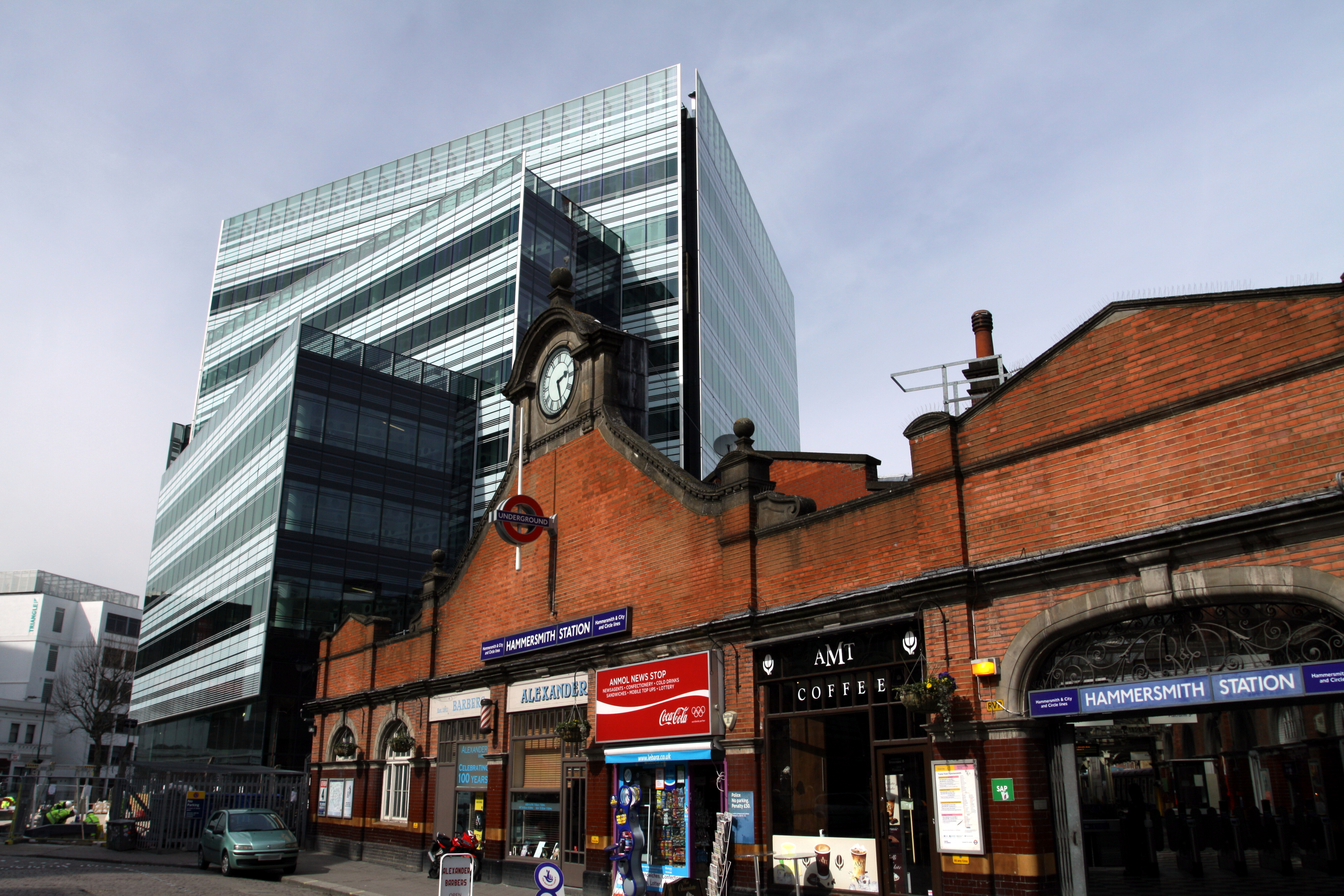 Hammersmith tube station (Hammersmith & City Line) in the London Borough of Hammersmith and Fulham, Great Britain. The making of this file was supported by Wikimedia UK.